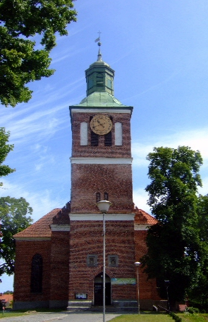 Saints Peter and Paul church in Węgorzewo, Poland